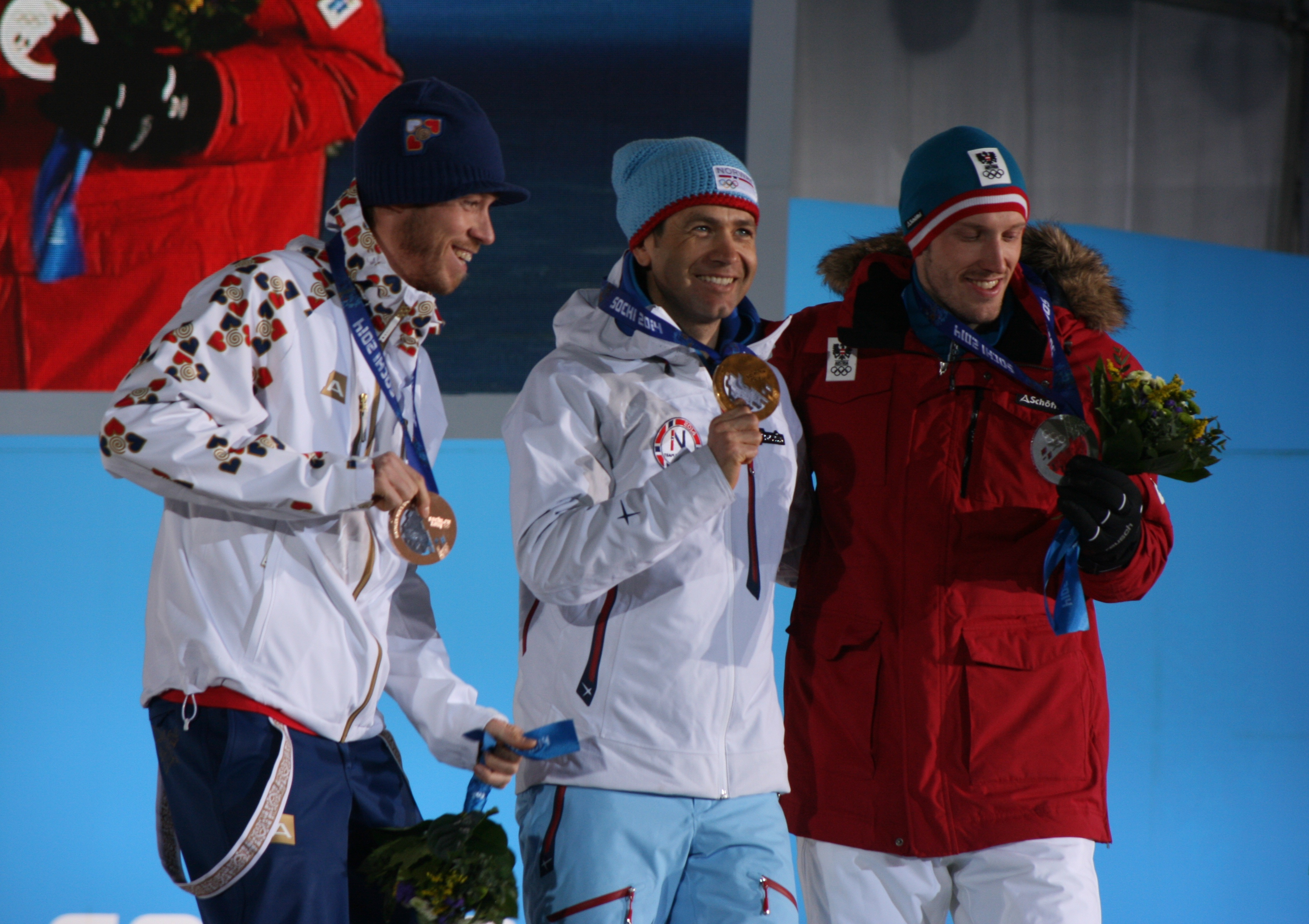 Men's biathlon sprint podium at the Sochi 2014 Olympic Winter Games. From left to right: Jaroslav Soukup, Czech Republic (bronze); Ole Einar Bjørndalen, Norway (gold), Dominik Landertinger, Austria (silver).